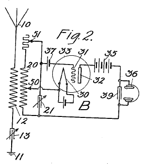 Fig 2 from US Patent 1330471 "High-Frequency Signalling", a Hartley Oscillator regenerative audion